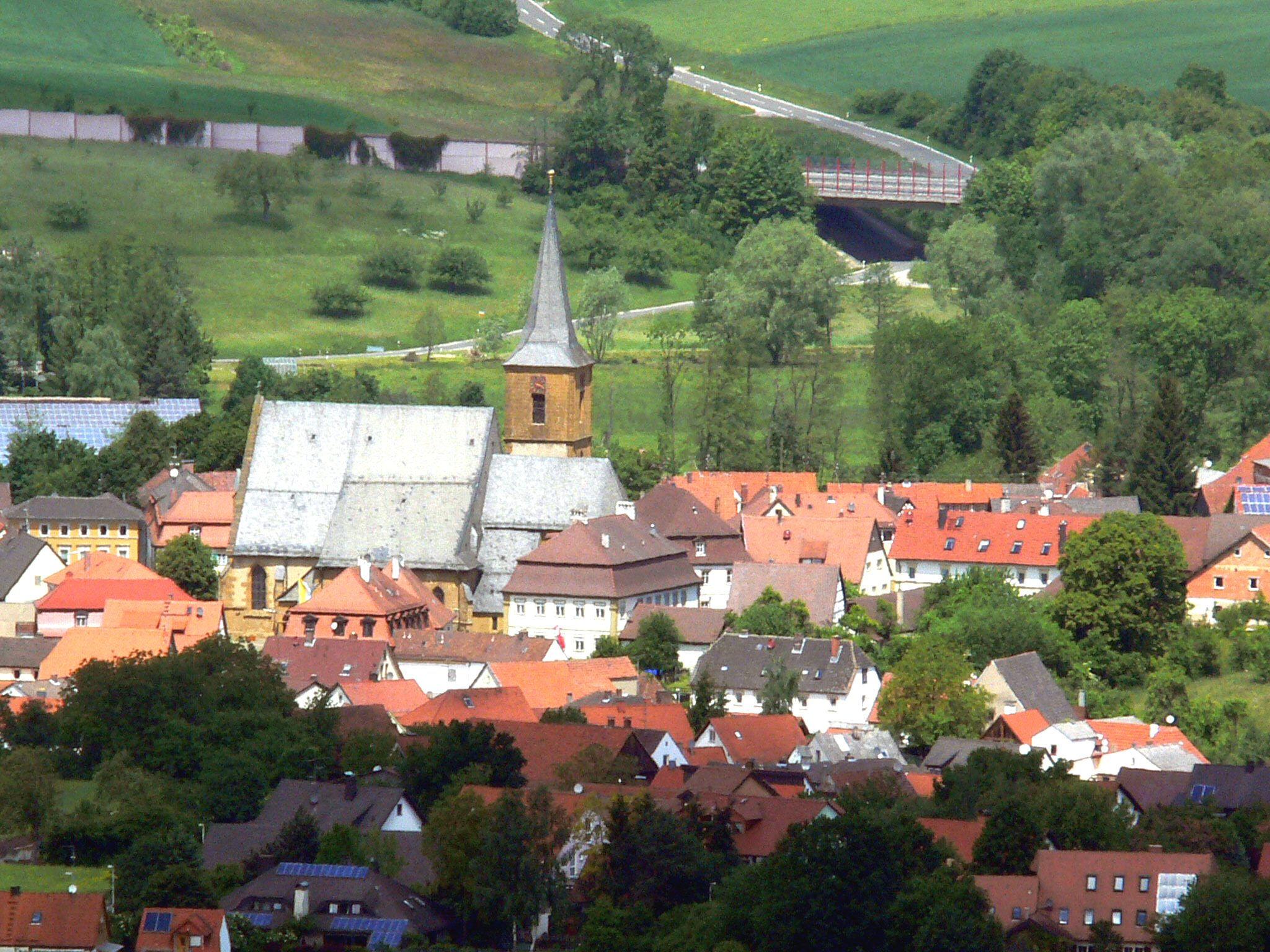 views of Scheßlitz near Bamberg, Germany